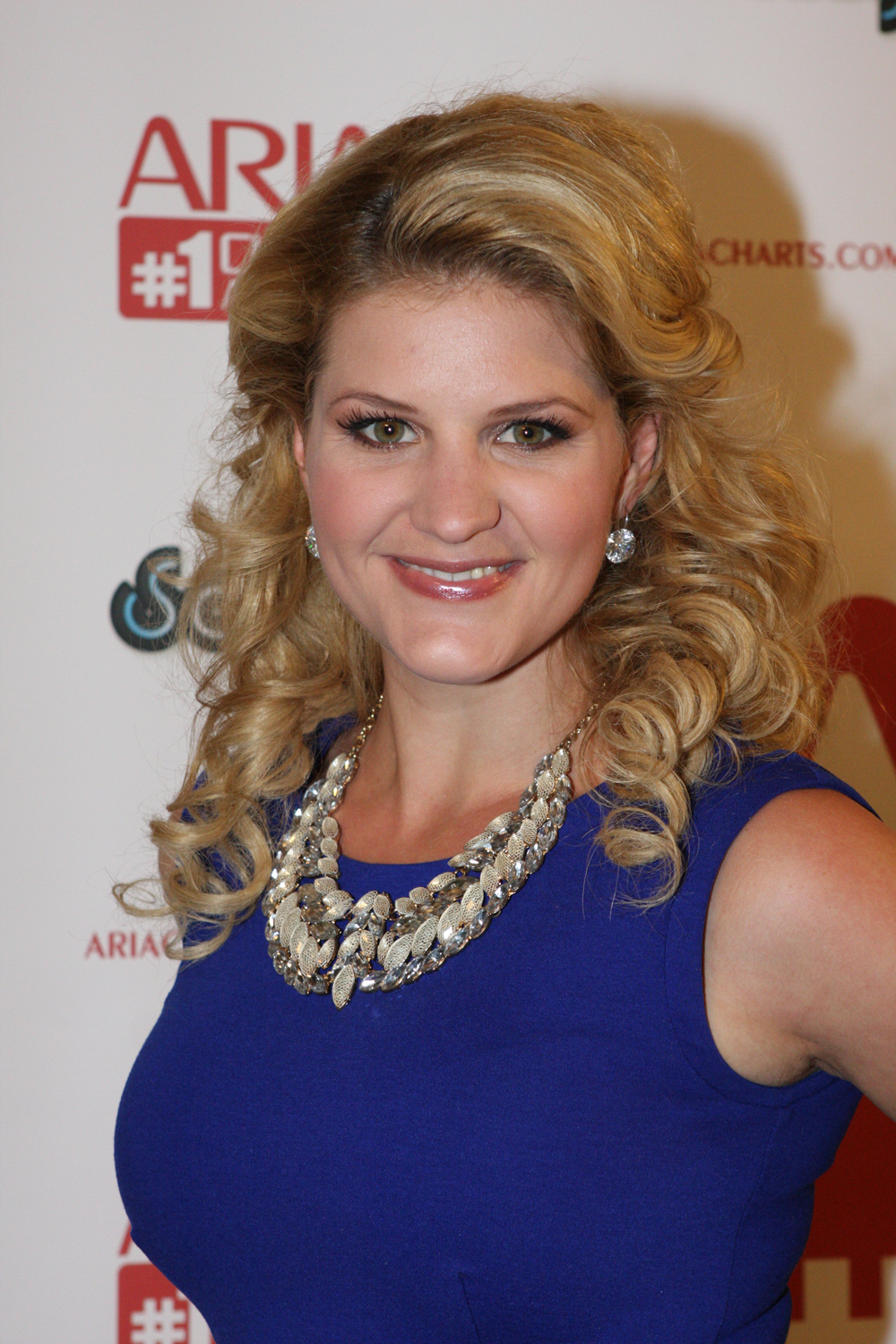 Mirusia Louwerse at the ARIA No. 1 Chart Awards in Sydney, Australia